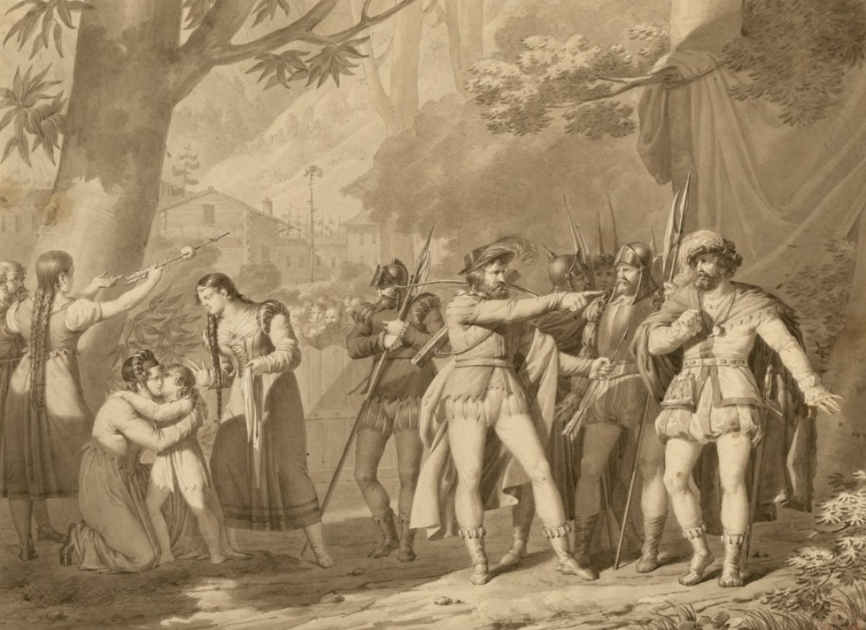 Gioachino Rossini - Guillaume Tell - Charles-Abraham Chasselat - dessin préparatoire à la gravure 5